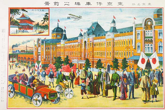 Tokyo Station (original Marunouchi building), in 1919.